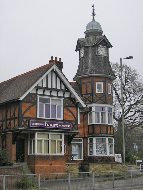 Clock Tower, Farnborough, Hampshire A point of interest on a roundabout on the A325 through Farnborough.